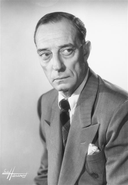 Studio photo